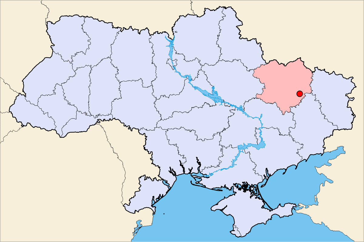 Description = Isjum geographical position Source = own work, Skluesener Date = 22.01.2006 Author = Skluesener Credits = Colours chosen according to a map of steschke